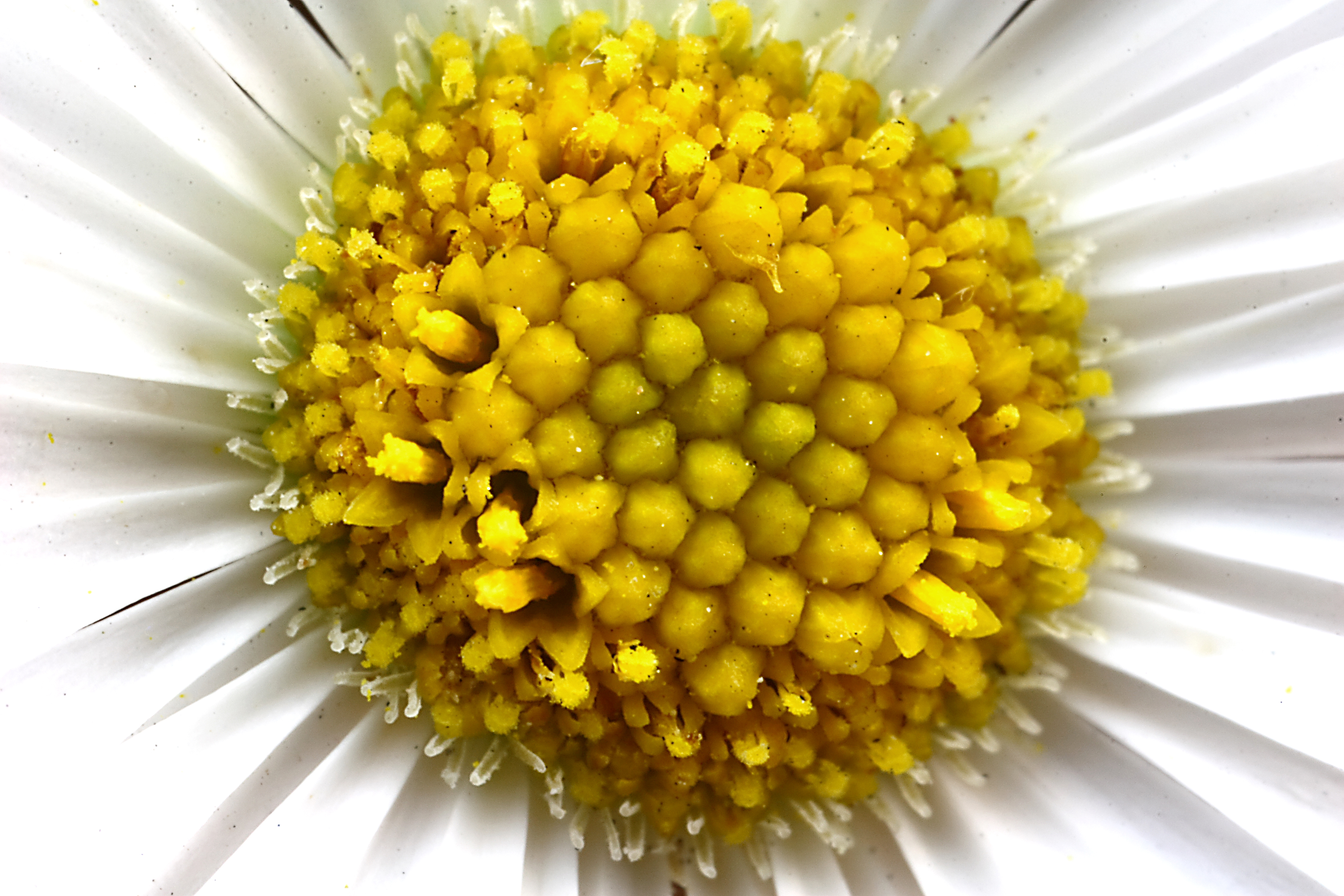 Extreme close-up picture of daisy flower (Bellis perennis)